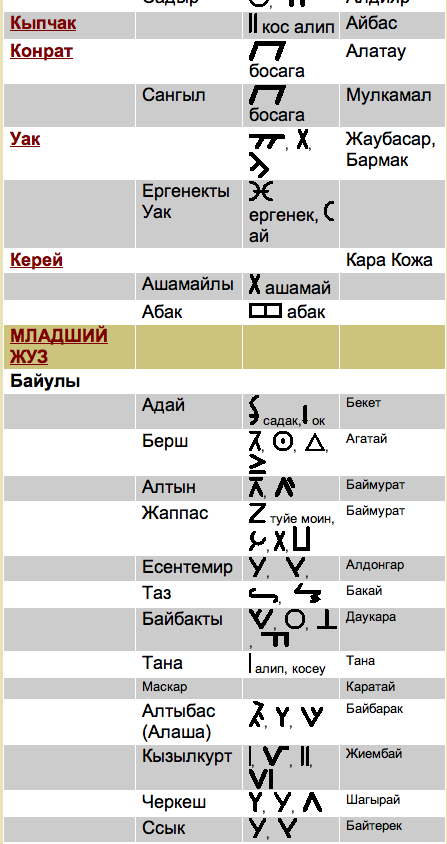 tamga